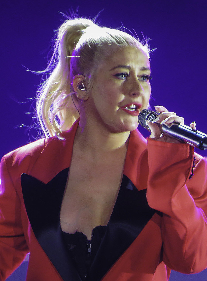 Christina Aguilera performing at the Pepsi Center on October 19, 2018 on her Liberation Tour.